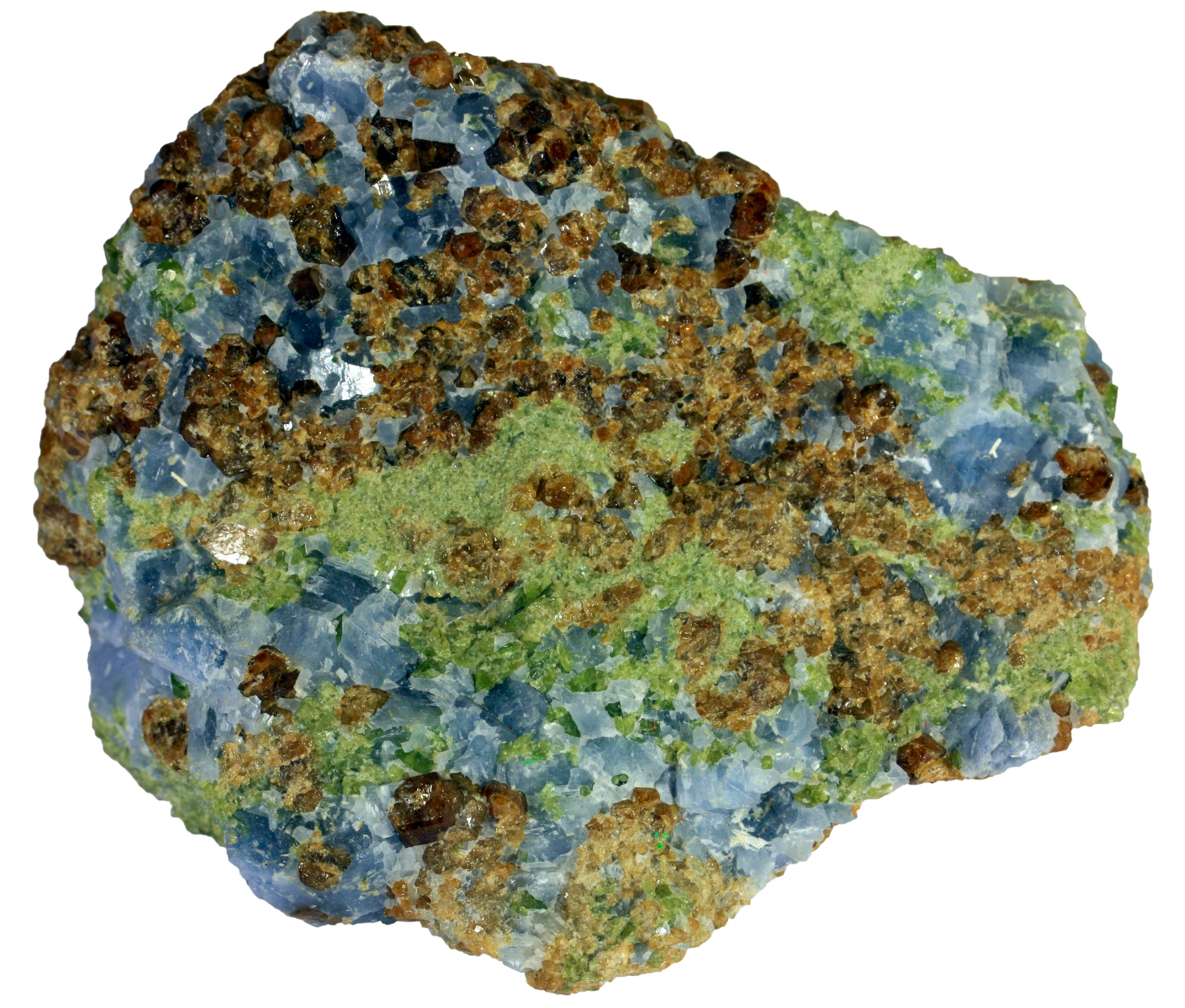 Skarn from Mount Monzoni, Northern Italy. Skarn is a metamorphic rock type. It forms when magmatic liquids react with carbonate rocks (limestone, marble). This skarn is composed of calcite (blue), pyroxene augite (green), and garnet grossular (orange). The width of the view is 6 cm. Additional information from the source: [2]